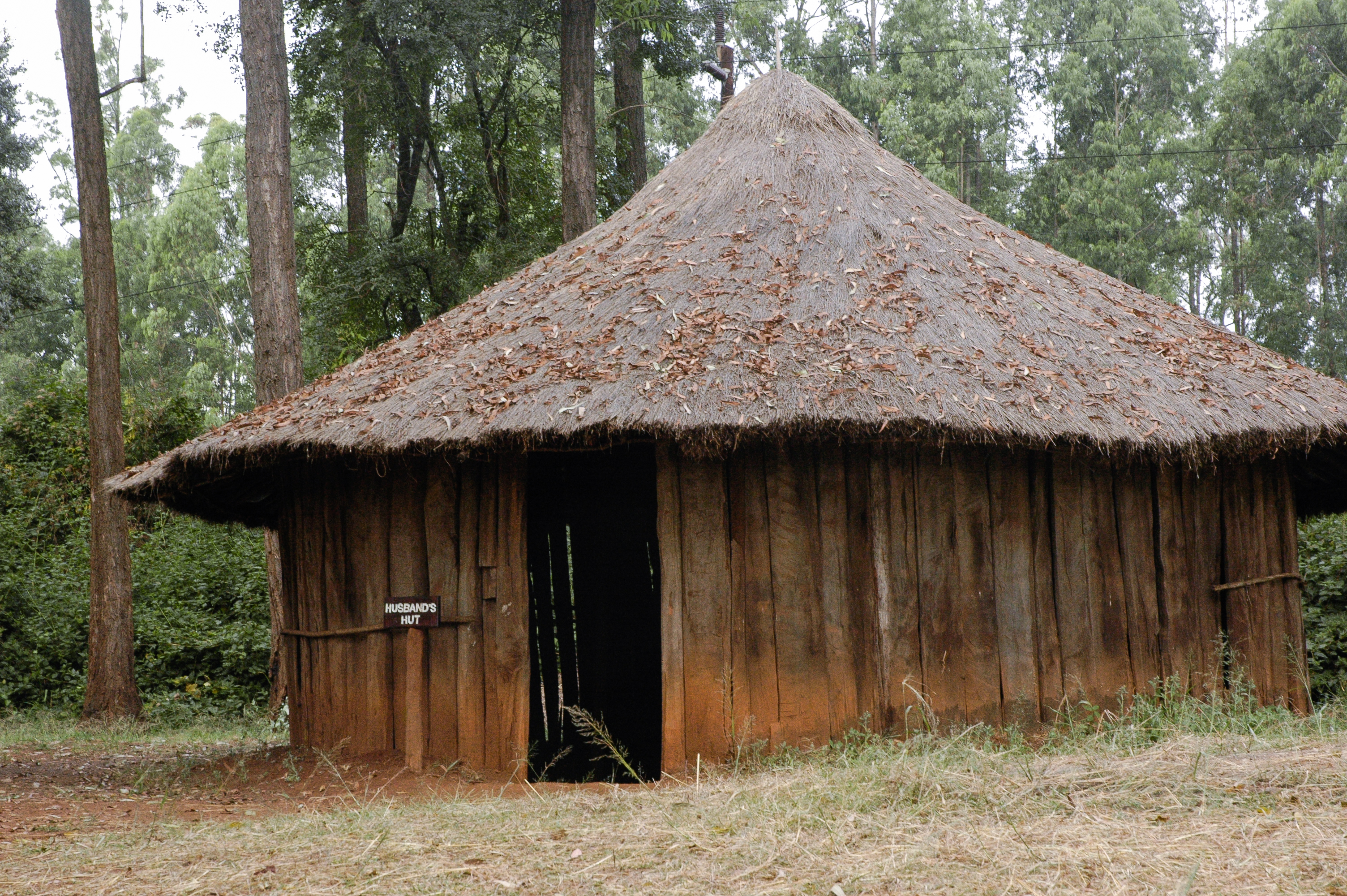 Husband`s hut in Kikuyu village at Bomas of Kenya near Nairobi